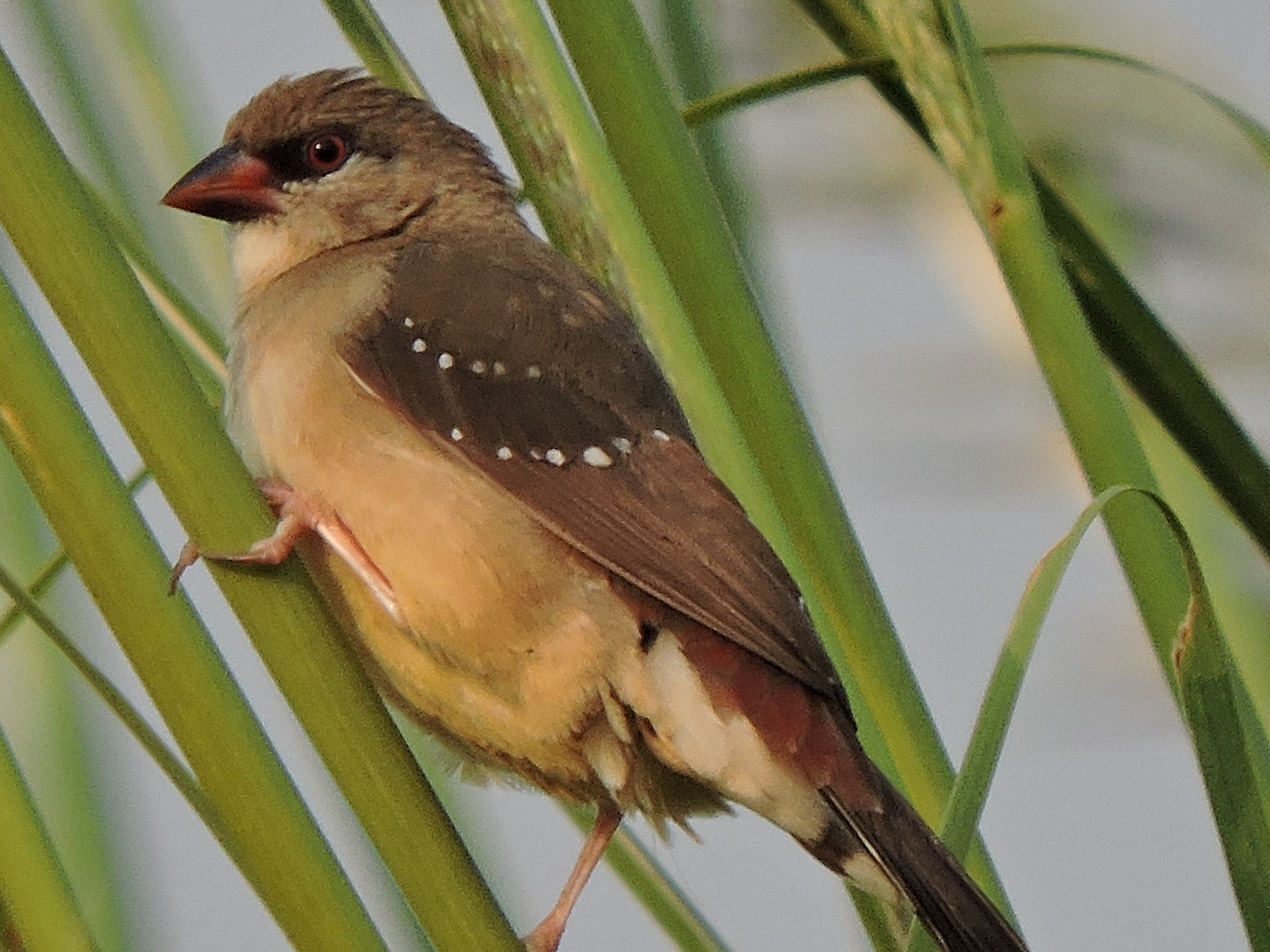 Red Avadavat,Chapapar Chiri, Mohali, Punjab, India